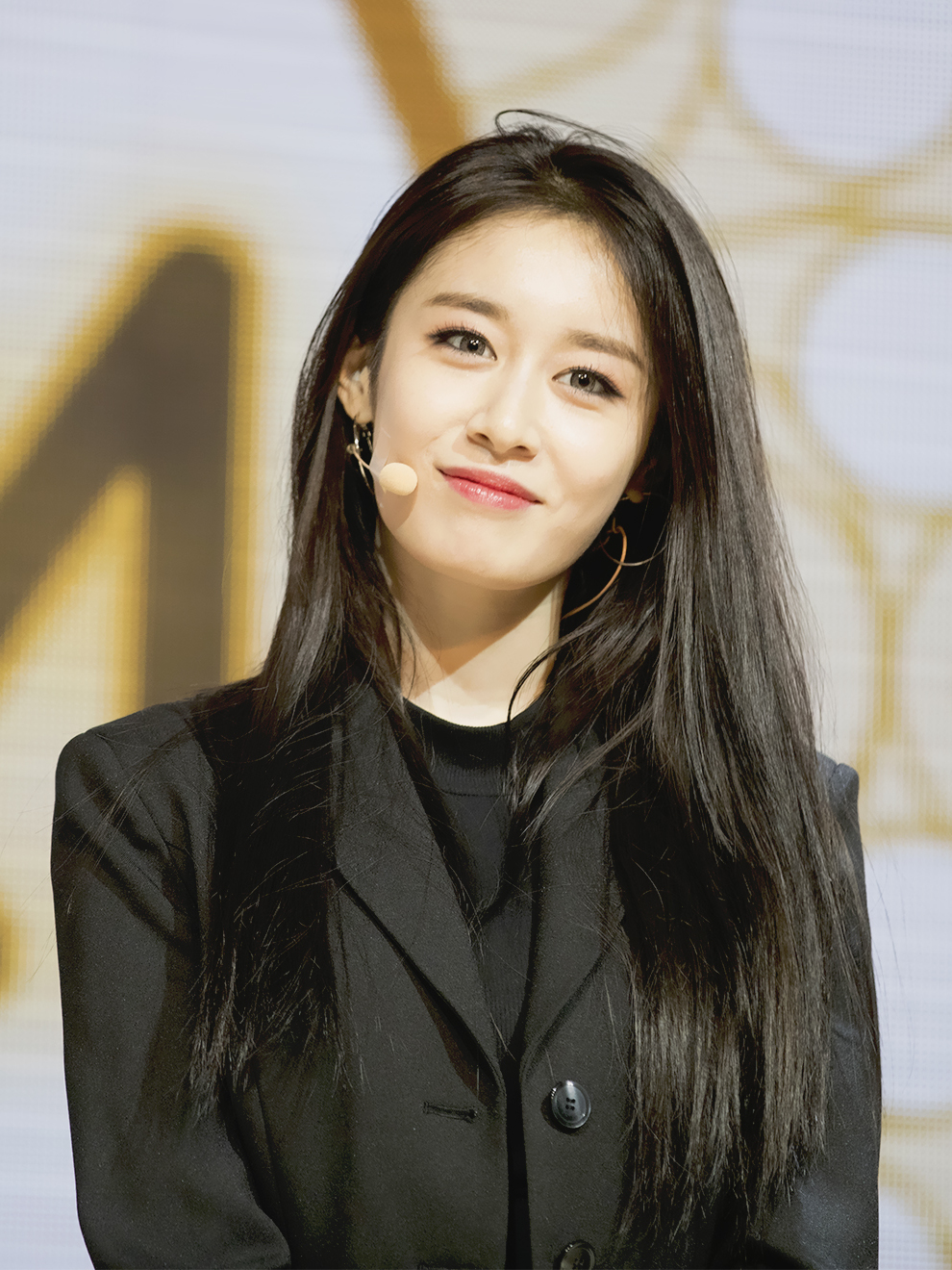 170614 'What's My Name' Showcase